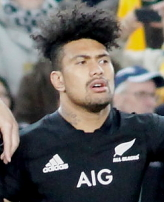 2017.08.19.20.03.20-NZL anthem-0001 2017 Rugby Championship, Bledisloe 1, Australia vs New Zealand, 19th August, ANZ Stadium, Sydney